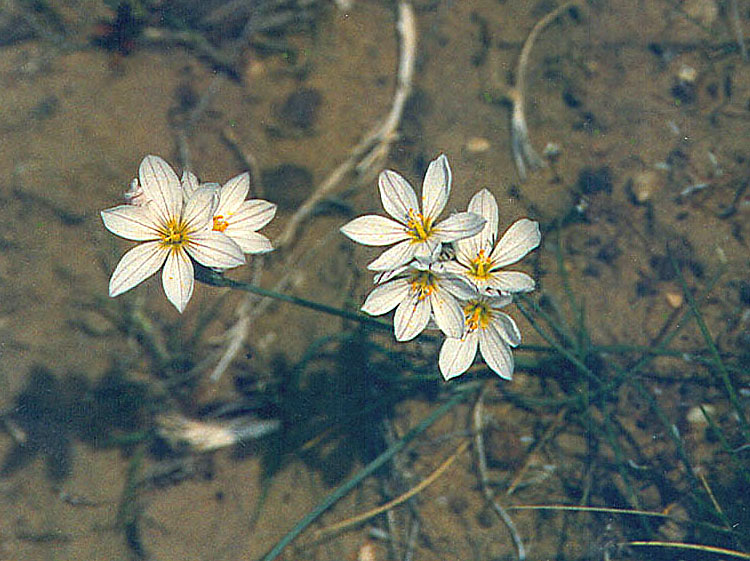 Known as the Streaked Maiden in garden circles, but here in its native Patagonia it is referred to as a Marancela. In context at